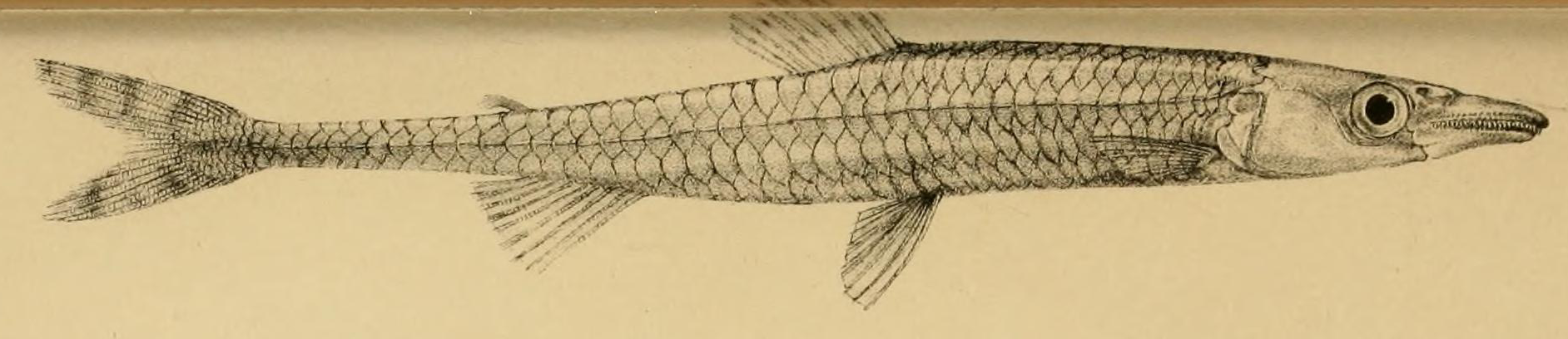 Illustration of Phago loricatus from Günther 1865